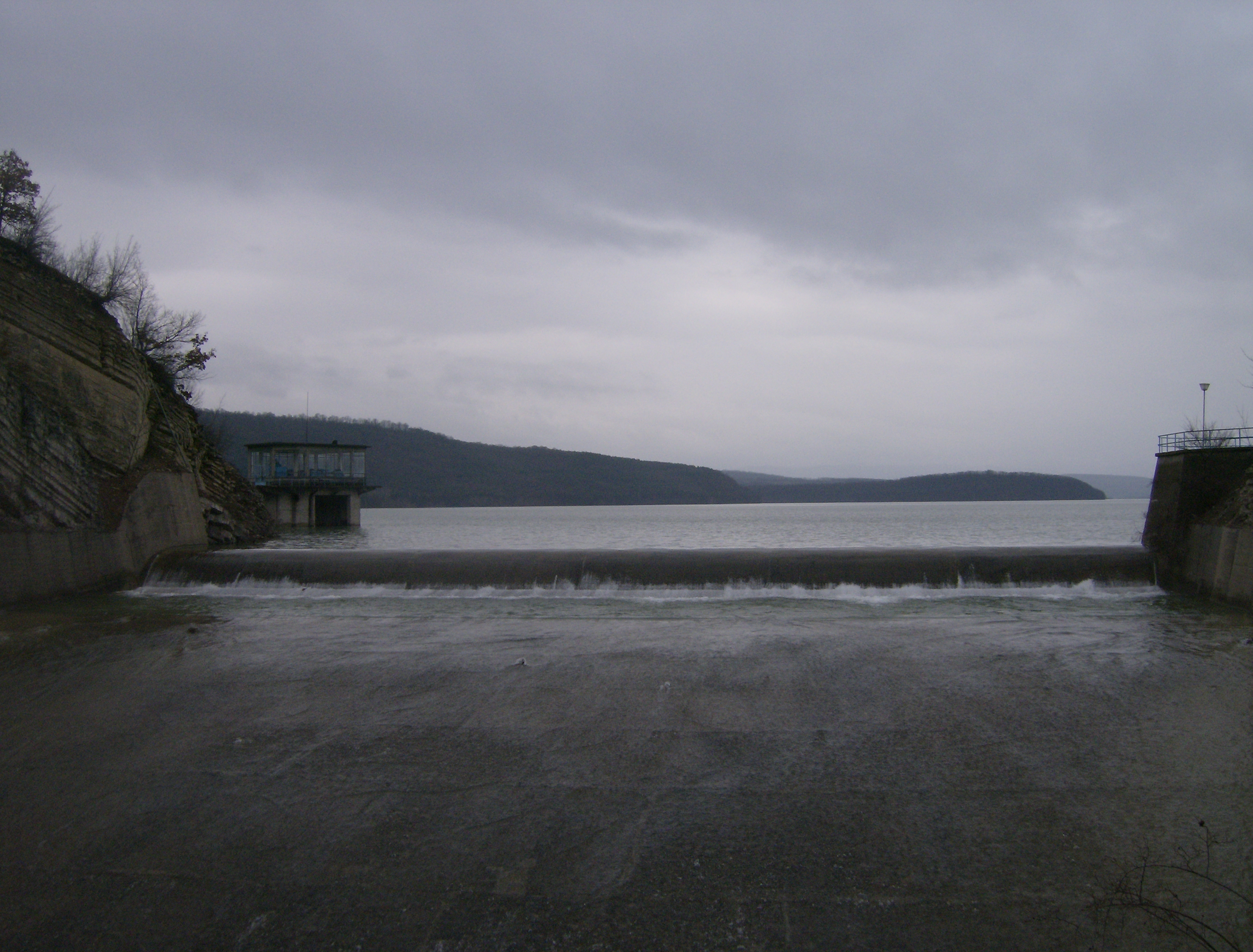 Ticha Dam